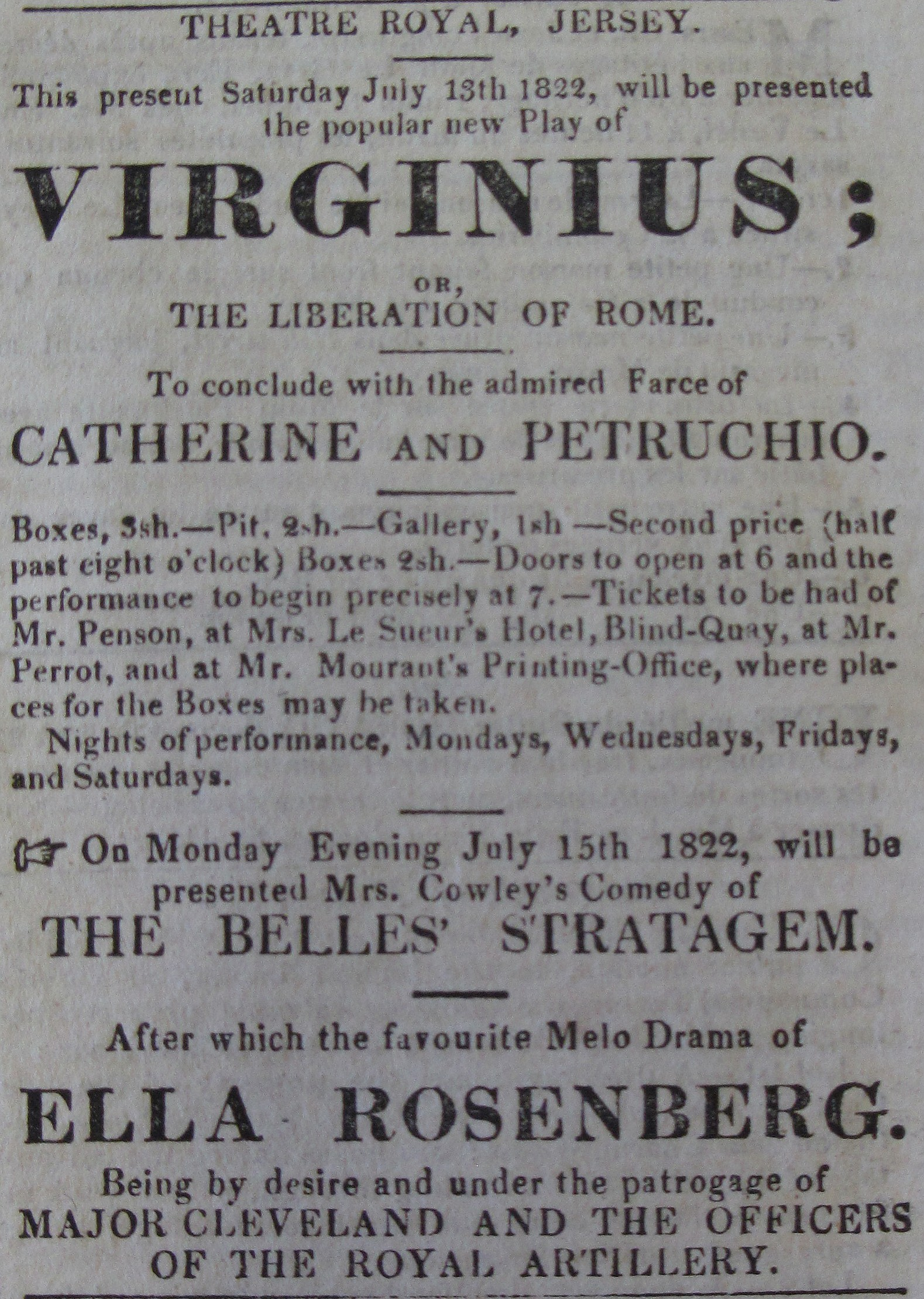 Advertisement for the programme at the Theatre Royal, Jersey: 13 July 1822 - Virginius; Catherine and Petruchio (The Taming of the Shrew)